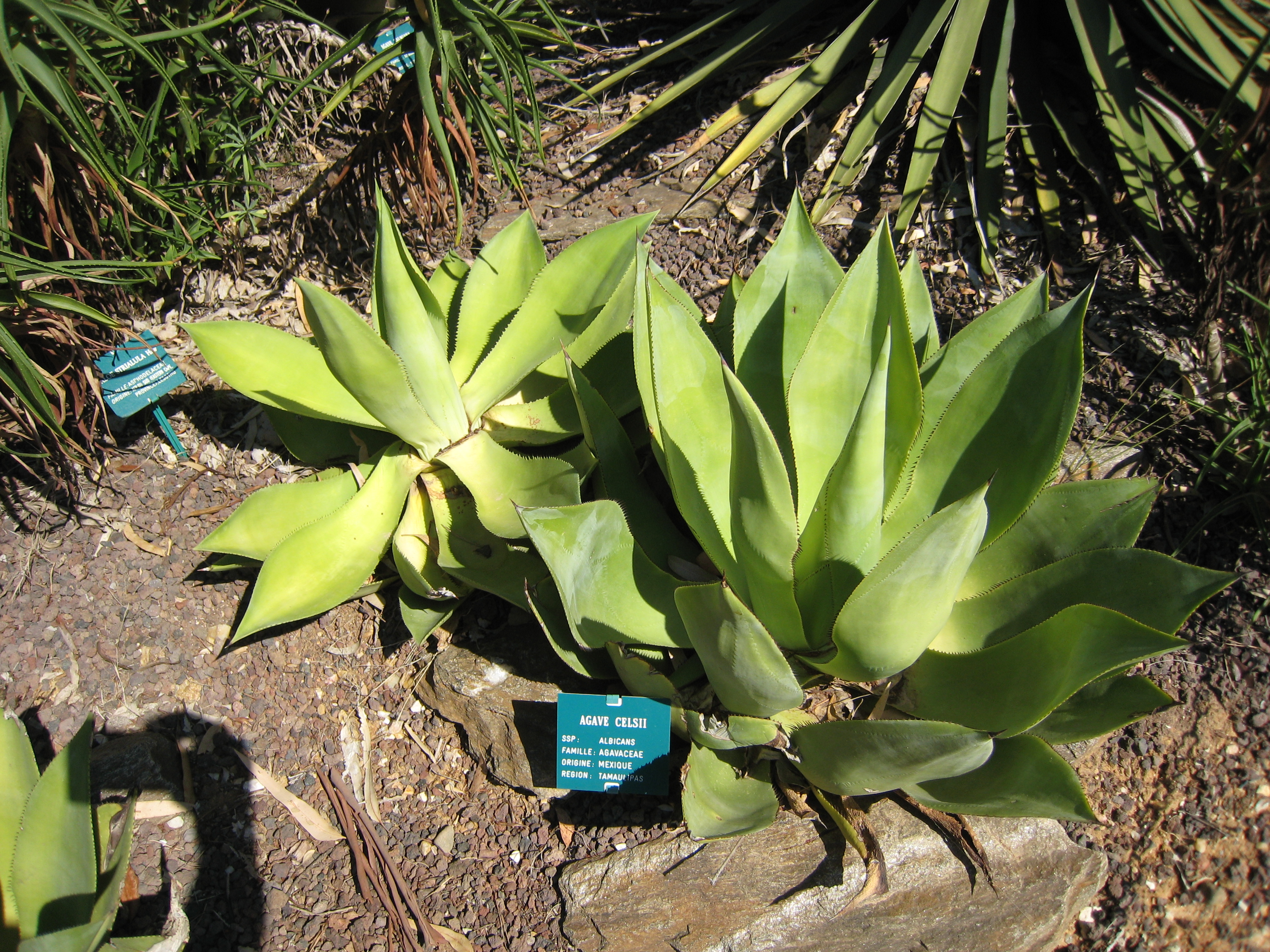 Agave mitis in jardin d'oiseaux tropicaux